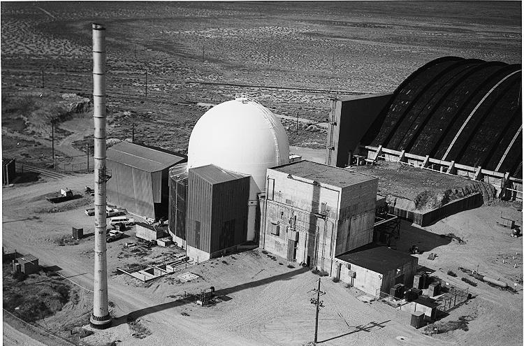 Research reactor Loss of Fluid Test, Idaho National Laboratory